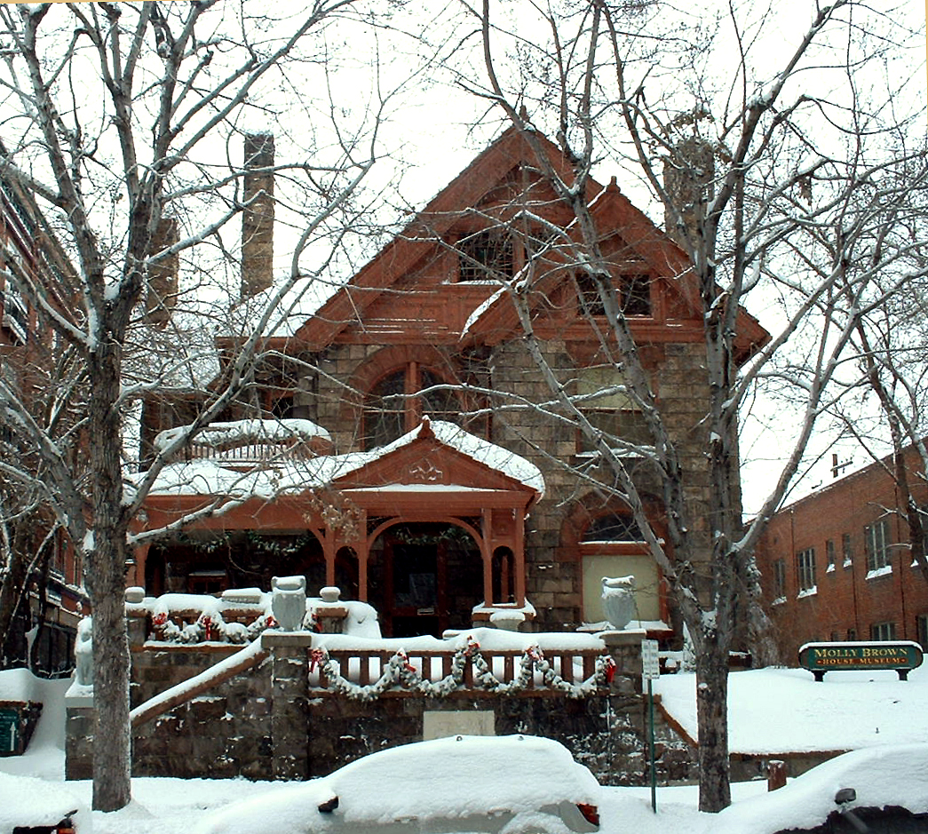 The Molly Brown House Museum in Denver, Colorado. Was the home of Margaret Brown, known as "The Unsinkable Molly Brown" because she survived the sinking of the RMS Titanic. It was built in the 1880s by William Lang and restored in the 1970s. Note: nearly 2 feet (70cm) of snow fell in Denver on the day this picture was taken.